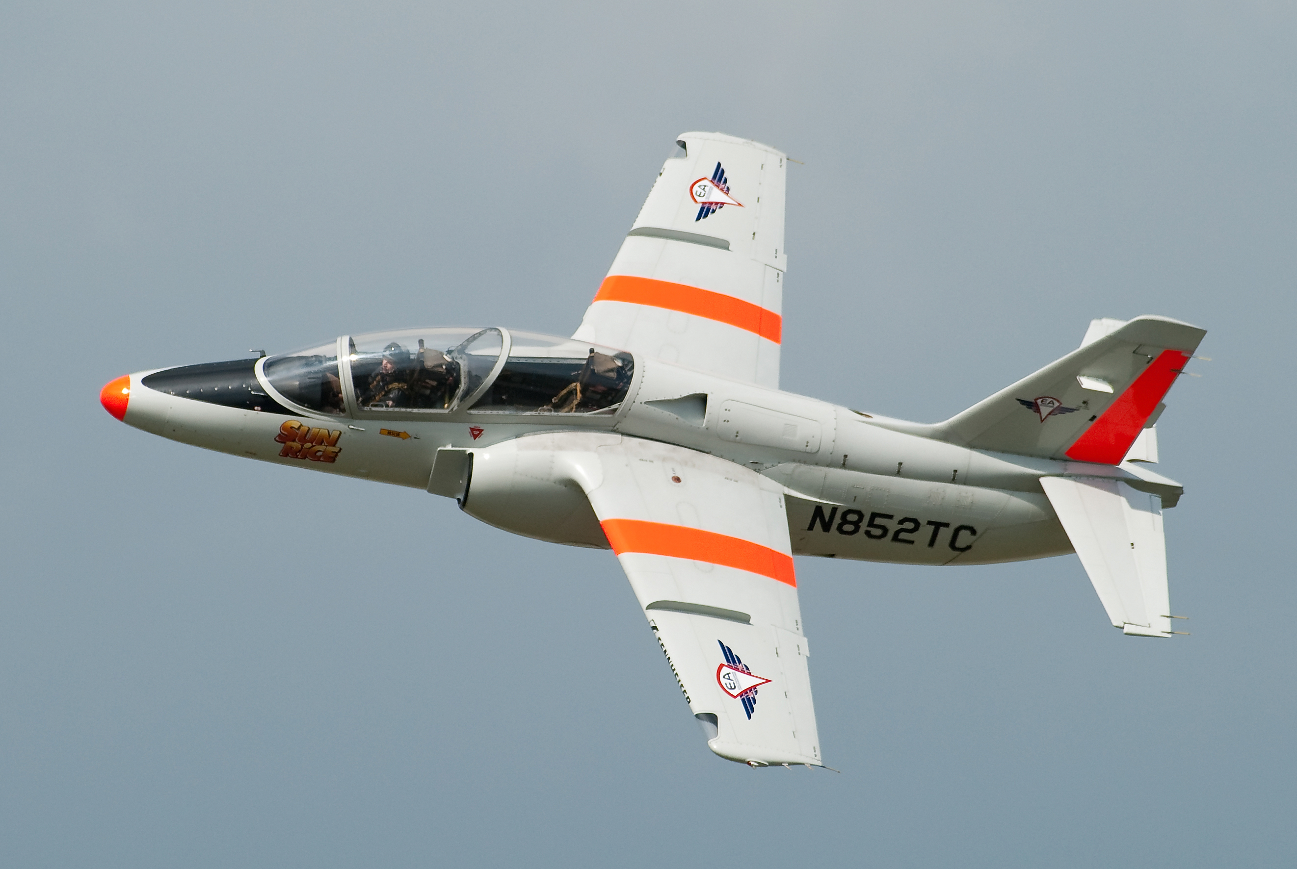 N852TC, a privately owned S.211 in flight.